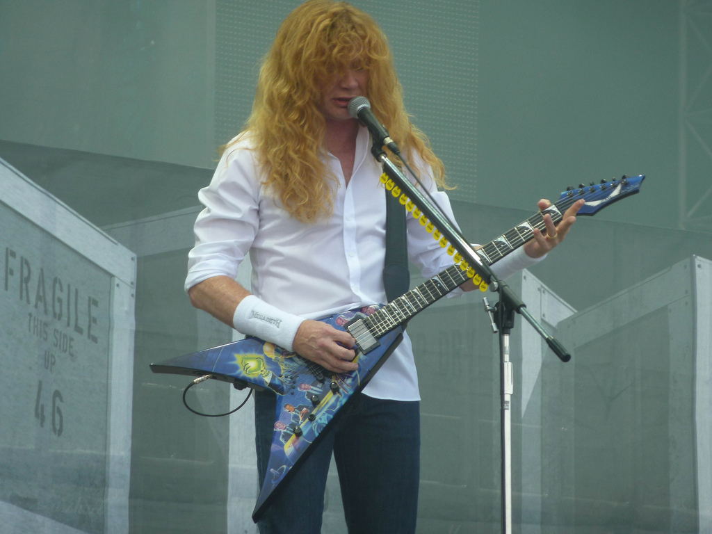 Dave Mustaine in the Czech Republic in 2010.